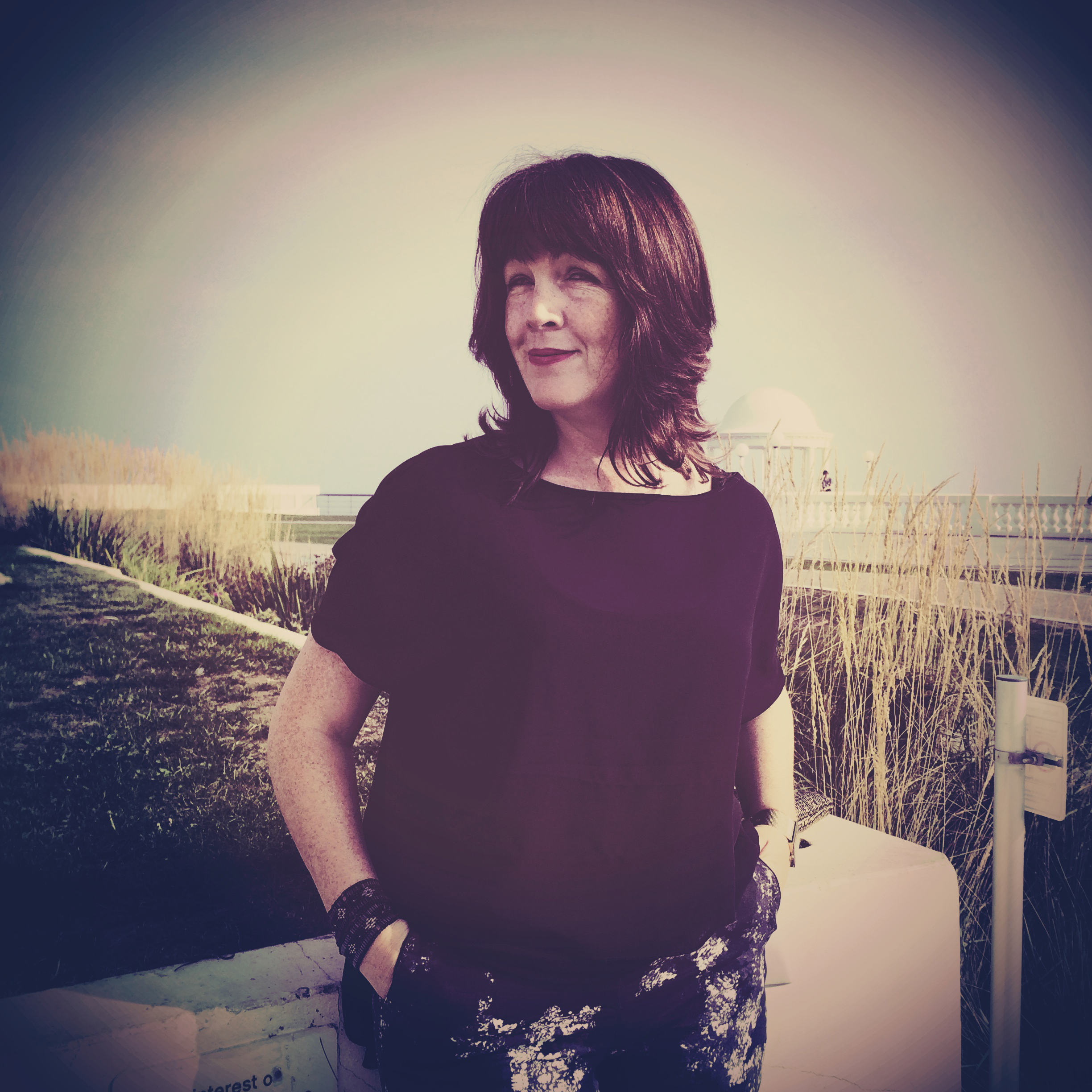 Bernadette Strachan in Bexhill, England.